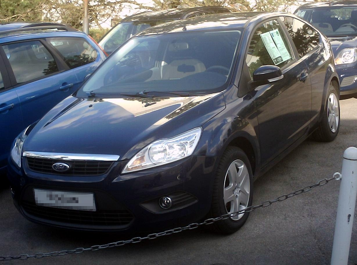 Ford Focus